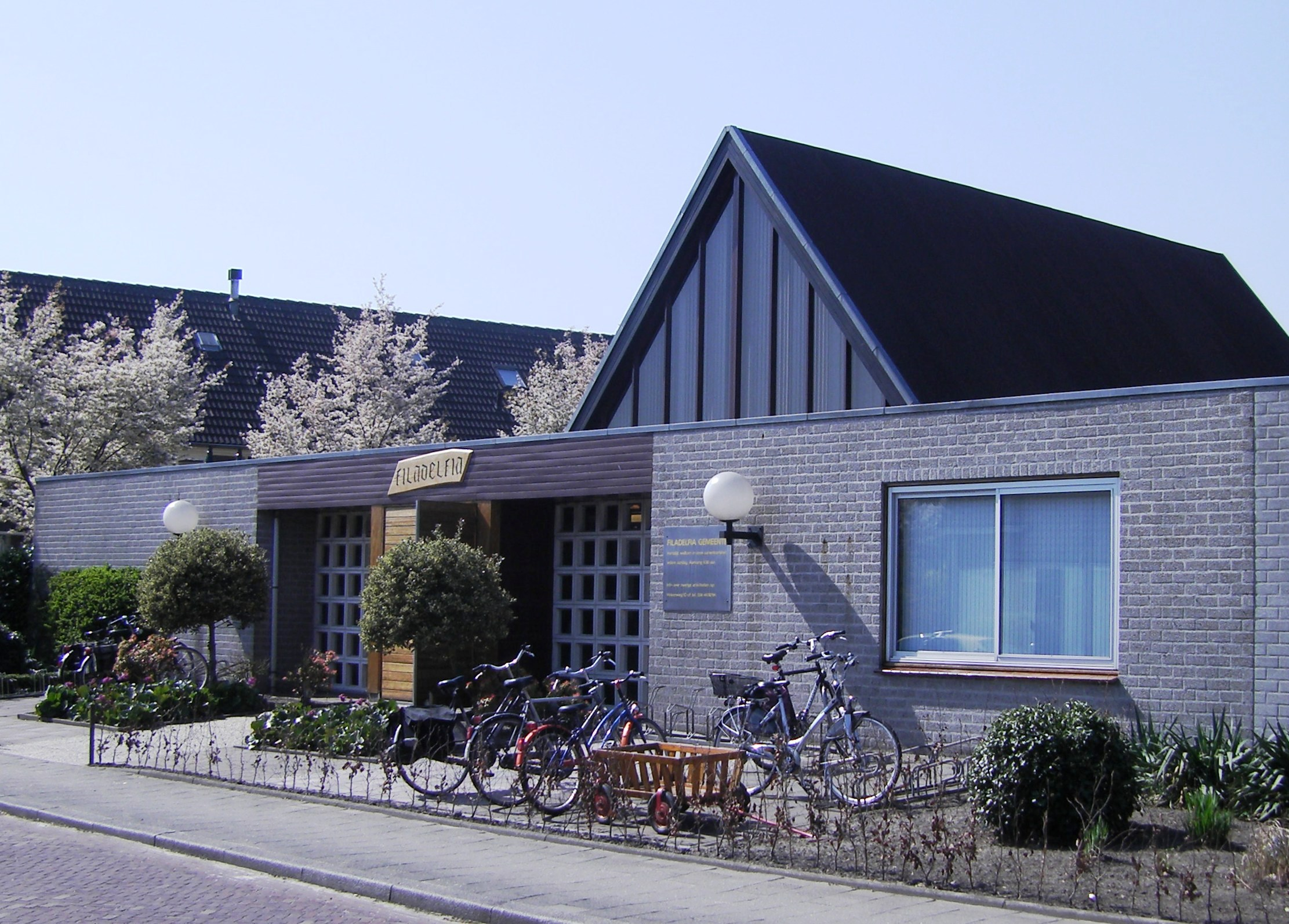 Filadelfia church Wapenveld, The Netherlands